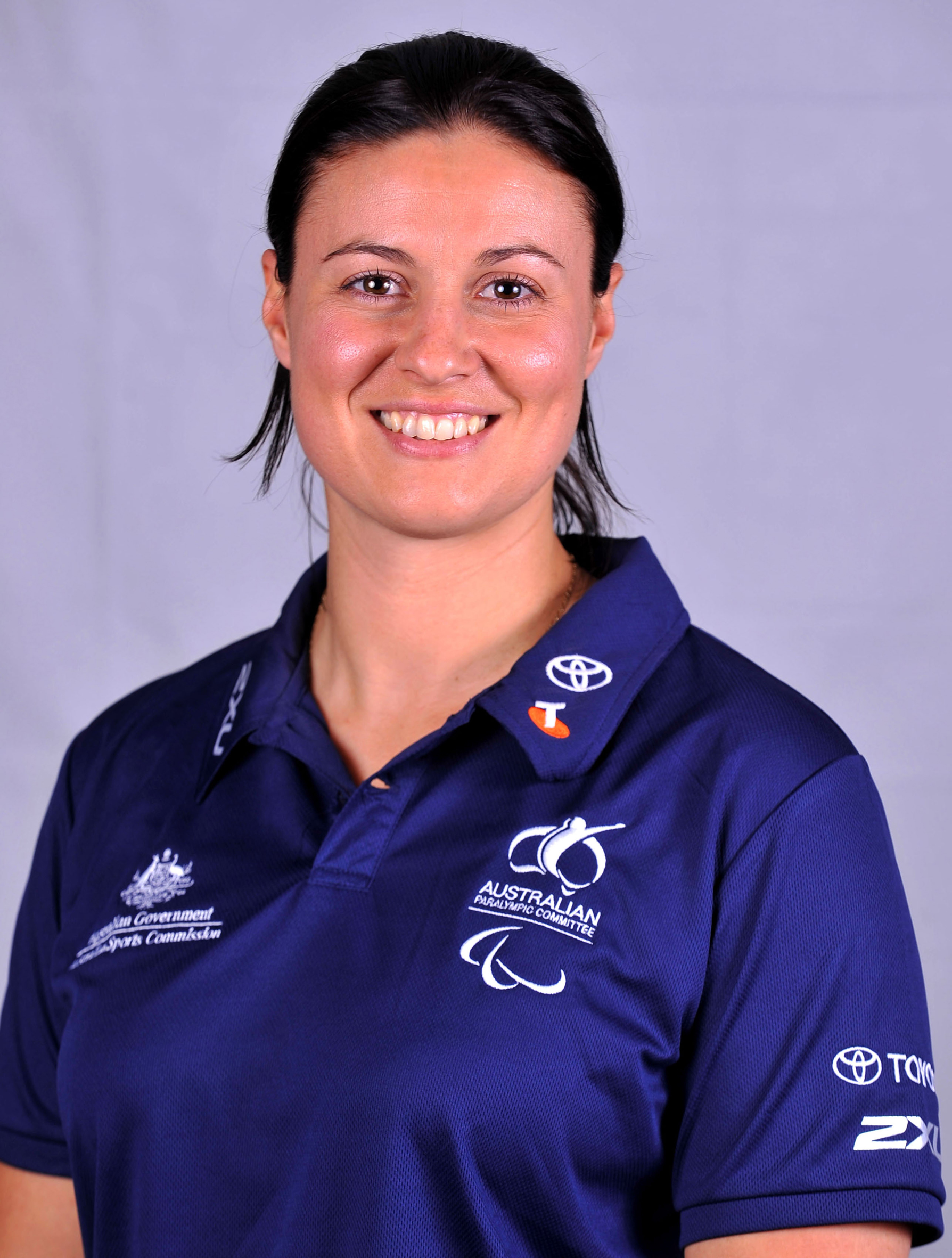 Portrait of Australian wheelchair basketballer Leanne Del Toso, 2012 Australian Paralympic (shadow) Team athlete